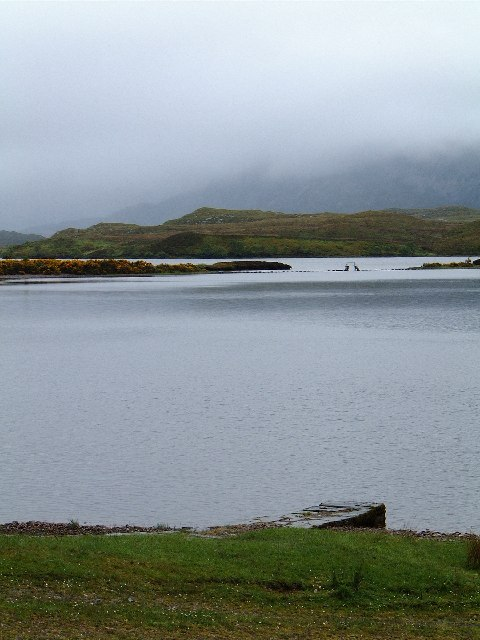 Loch nan Ealachan (Swan Loch), Arkle in the mist.